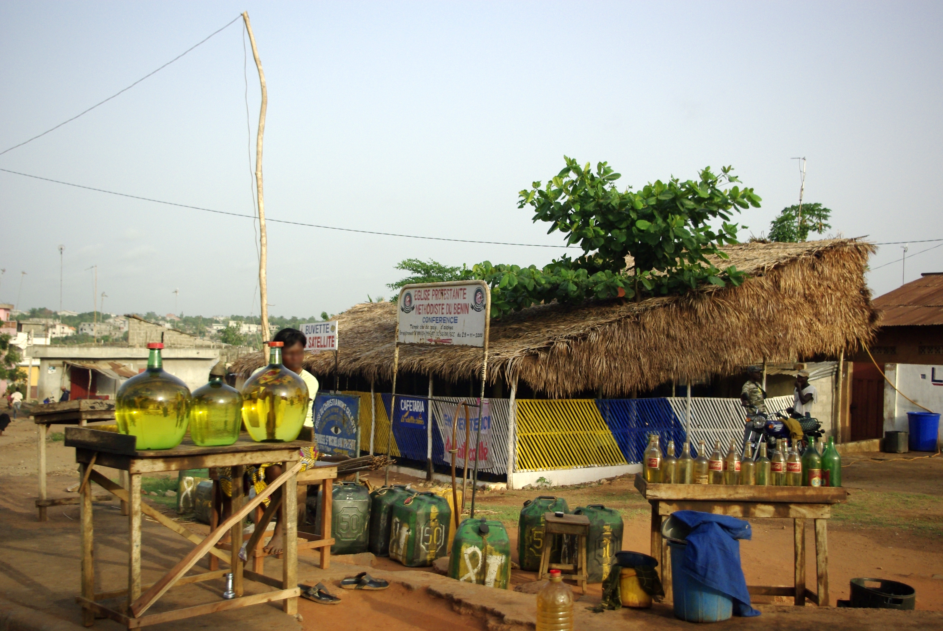 Kpayo and oil sold off the road in Porto-Novo, Benin